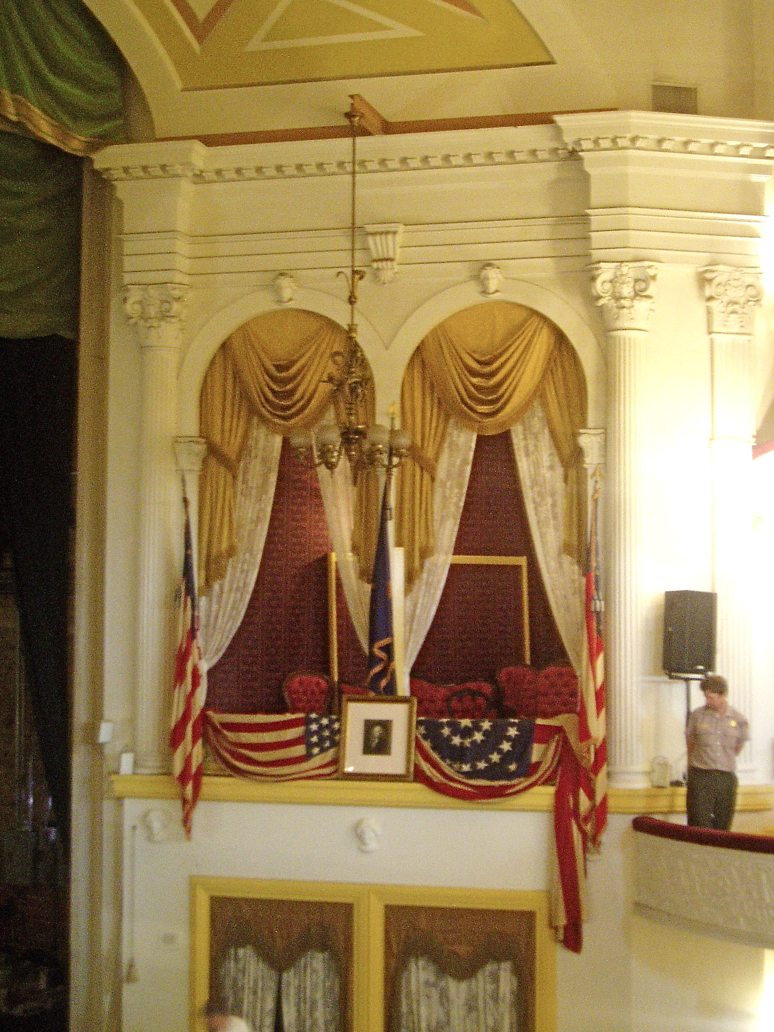 The Presidential Box in Ford's Theatre, where the 16th President of the United States, Abraham Lincoln, was shot by John Wilkes Booth. Today the theater functions as both a working theater and a museum.